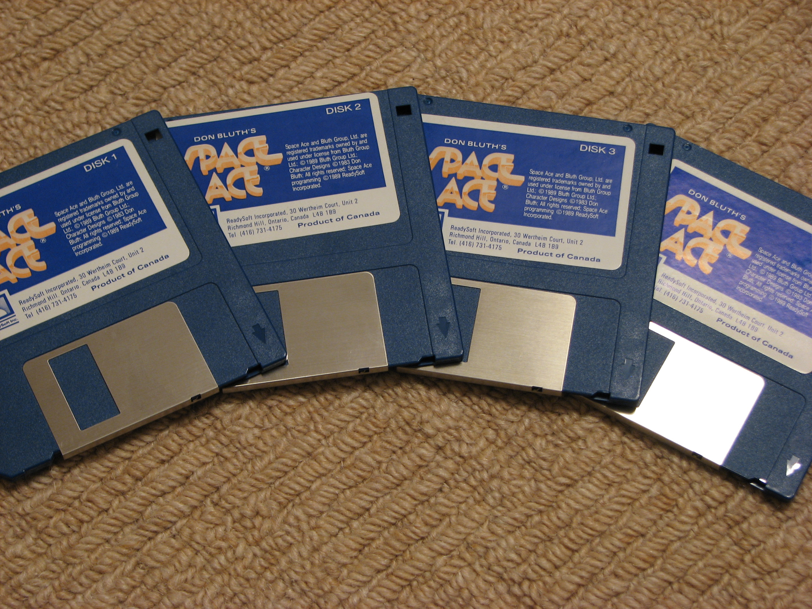 All 4 of the floppy disks for the Atari ST version of the game 'Space Ace' taken using Cannon Power Shot S3